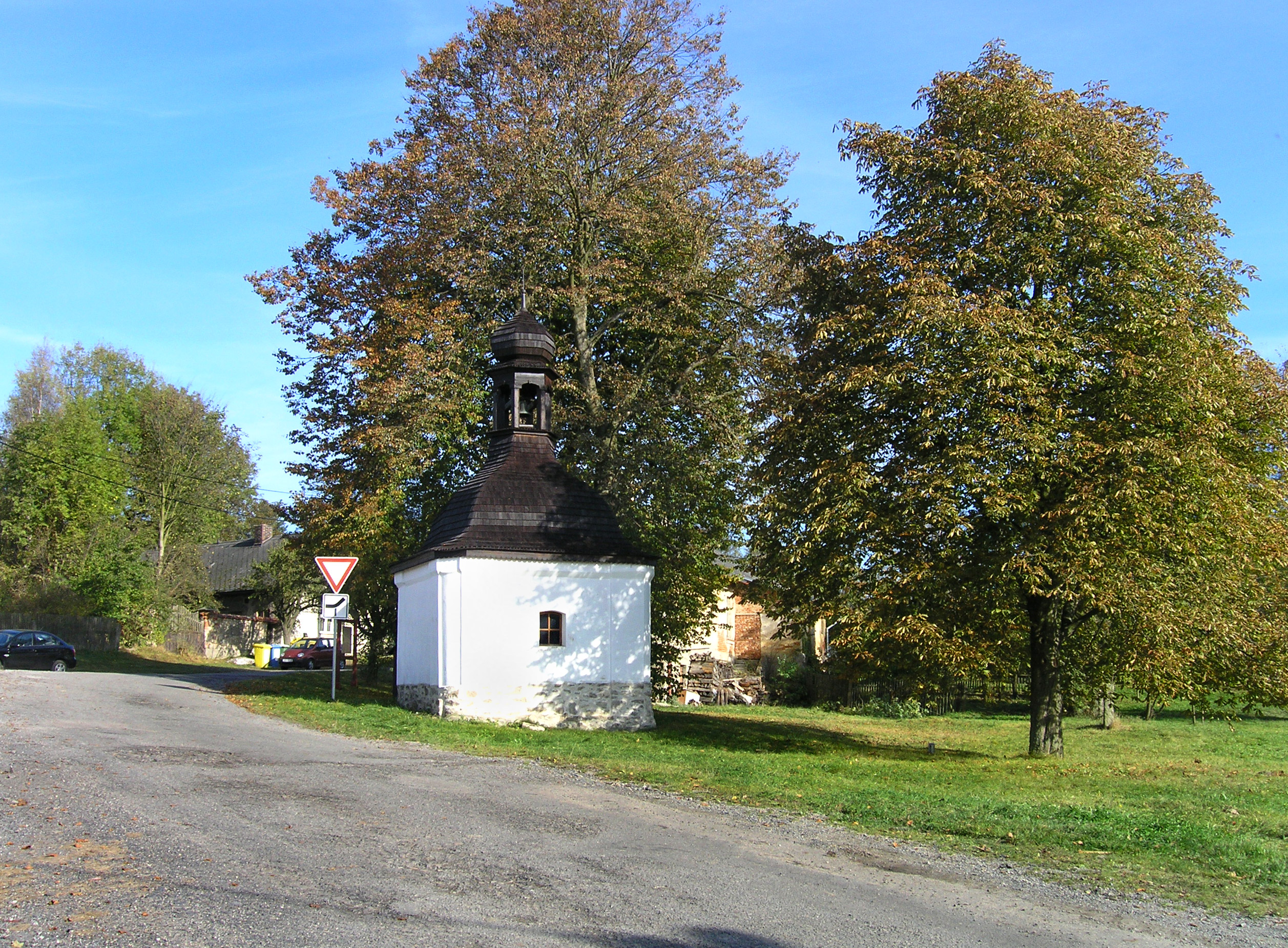 Chapel in Hlávkov, part of Vyskytná nad Jihlavou, Czech Republic